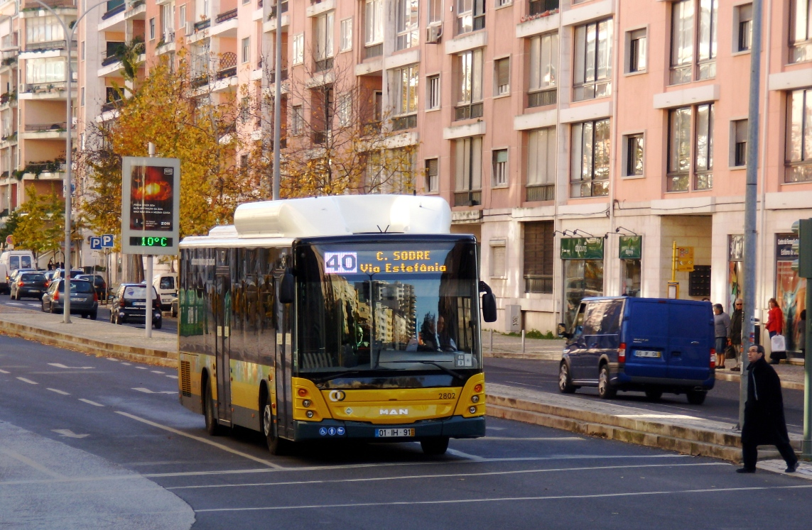 CNG bus (#2802) with MAN chassis in Lisbon, Portugal.